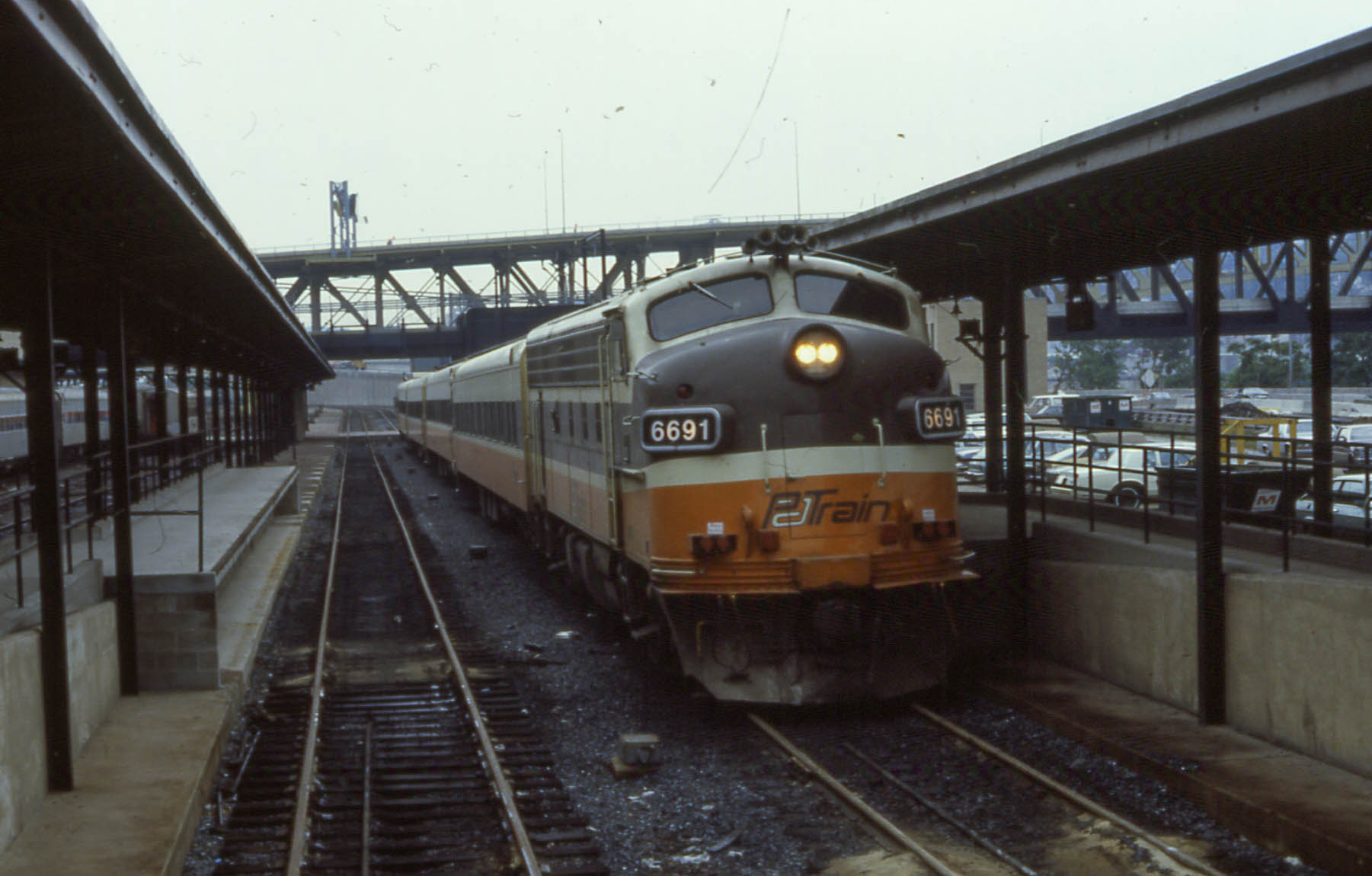 19850603 05 PAT Commuter Train, Pittsburgh, PA